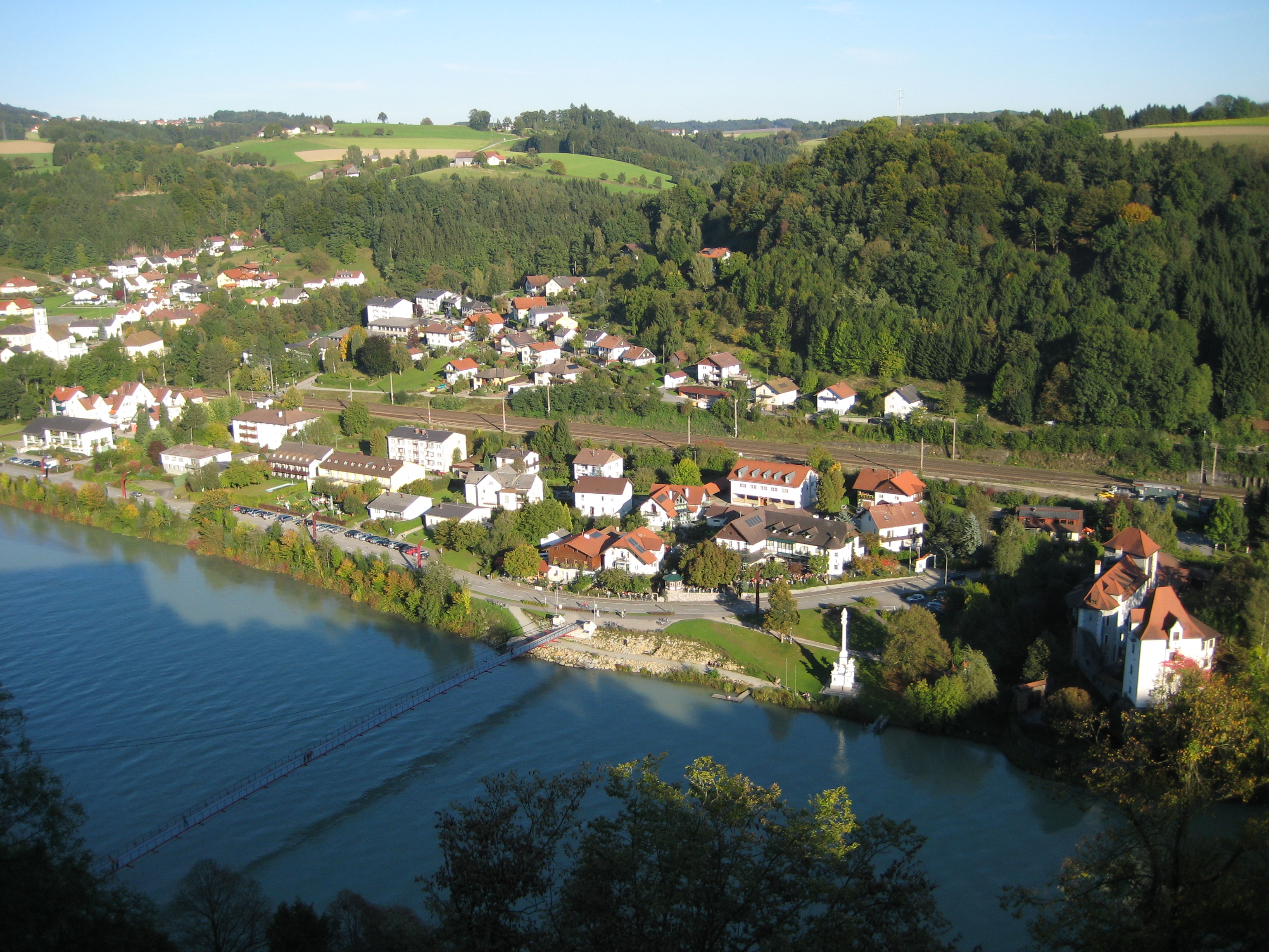 View of Wernstein am Inn from castle Neuburg am Inn